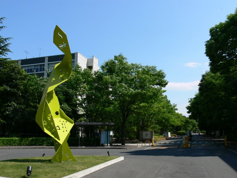 Saitama University, Saitama, Japan. Taken by the original uploader on 20 May 2007.